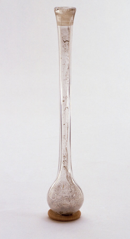 AuthorUnknownDescription